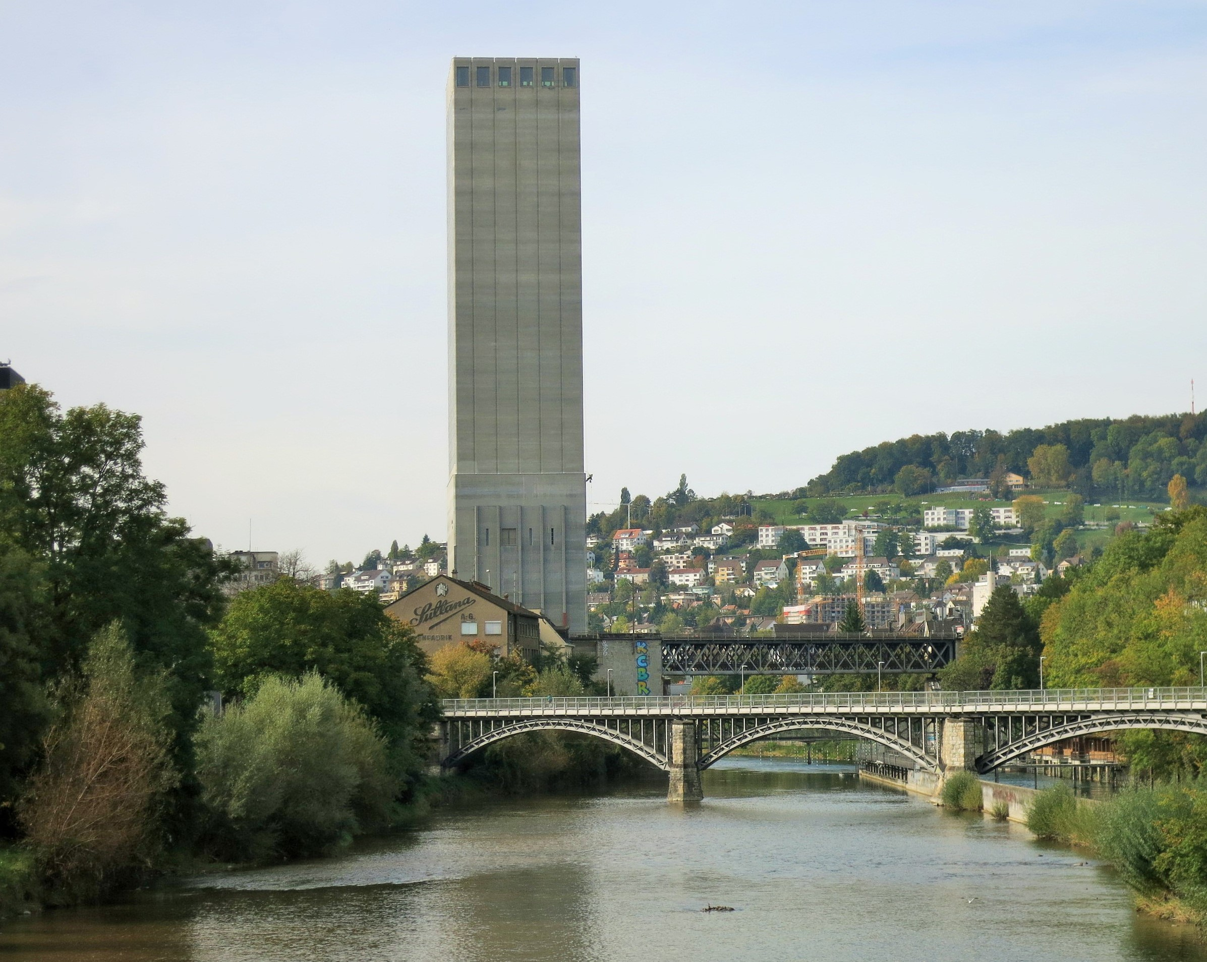 The Swissmill Tower.